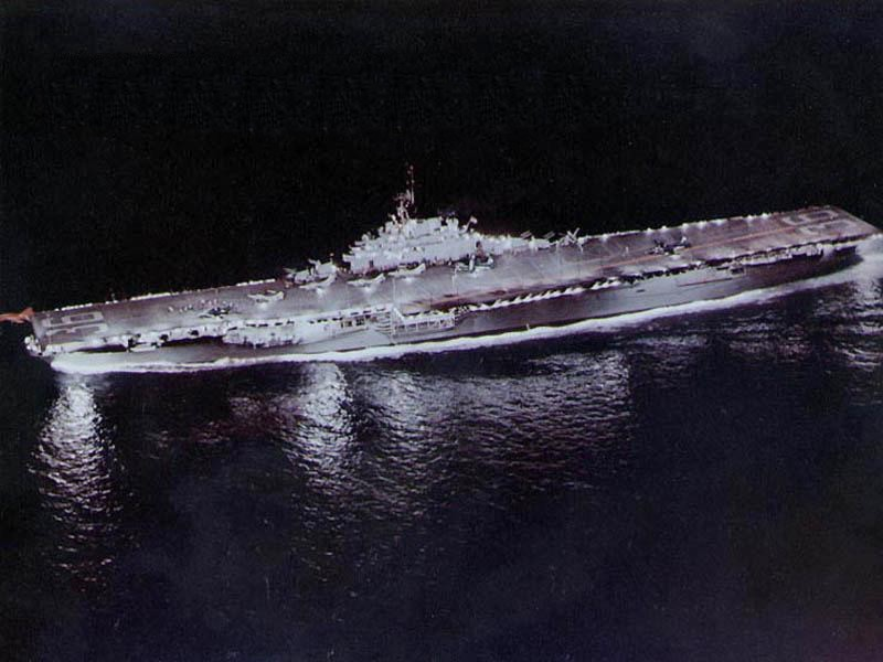 Night colour photograph of the U.S. aircraft carrier USS Antietam (CVA-36) in 1953. The carrier was operating out of Quonset Point, Rhode Island (USA), at that time. Acoording the crew member Joseph Y. Love, ETCM, USN (Ret.), this was a publicity shot for the flash bulb maker "Sylvania". No real flight operations took place and the aircraft were painted with a highly reflective paint.